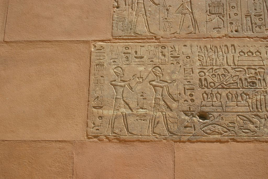 Detail of the Red Chapel, showing Thutmoses III and Hatshepsut